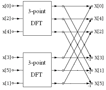 an illustration of how prime factor FFT works in the case N=6